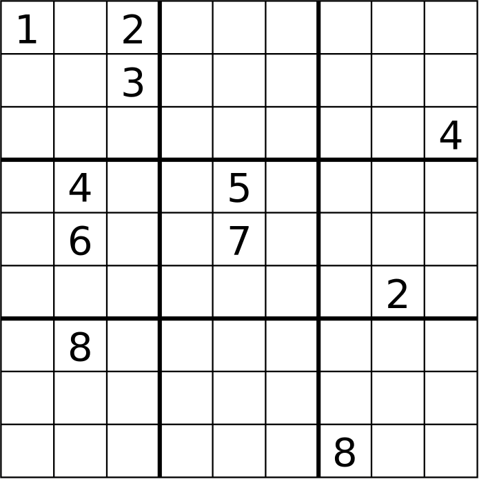 Ocean's Sudoku Disjoint Groups with 11 clues, created by Ocean, August 31, 2007. This image is the same as "Oceans SudokuDG11 Puzzle.svg" uploaded by Ocean but the border has been trimmed to match the style of other Sudoku images. At the time of publishing of the original image, this puzzle (plus a dozen others found and published at the same time) were probably the first known Sudoku-DG puzzles with only 11 clues.